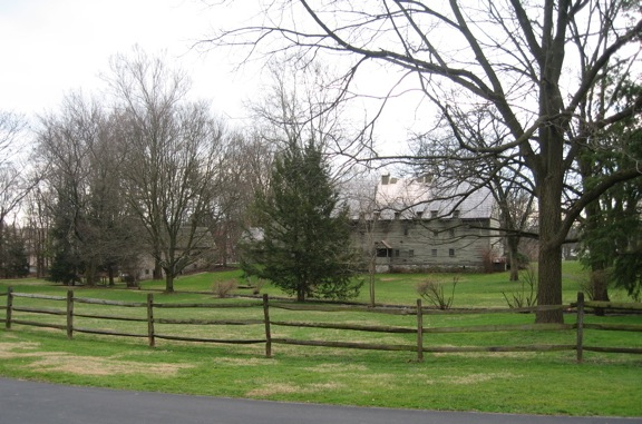 Photograph of Ephrata Cloister buildings in December 2006 Template:Pdself Object location40° 10′ 59″ N, 76° 11′ 21″ W